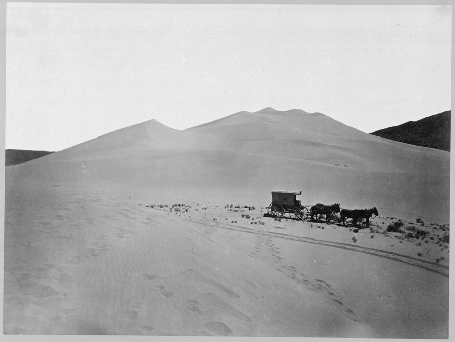 Timothy H. O'Sullivan's (c1840-1882) ambulance wagon and portable darkroom, used during the King Survey rolls across the sand dunes of the Carson Desert in Nevada in 1867.